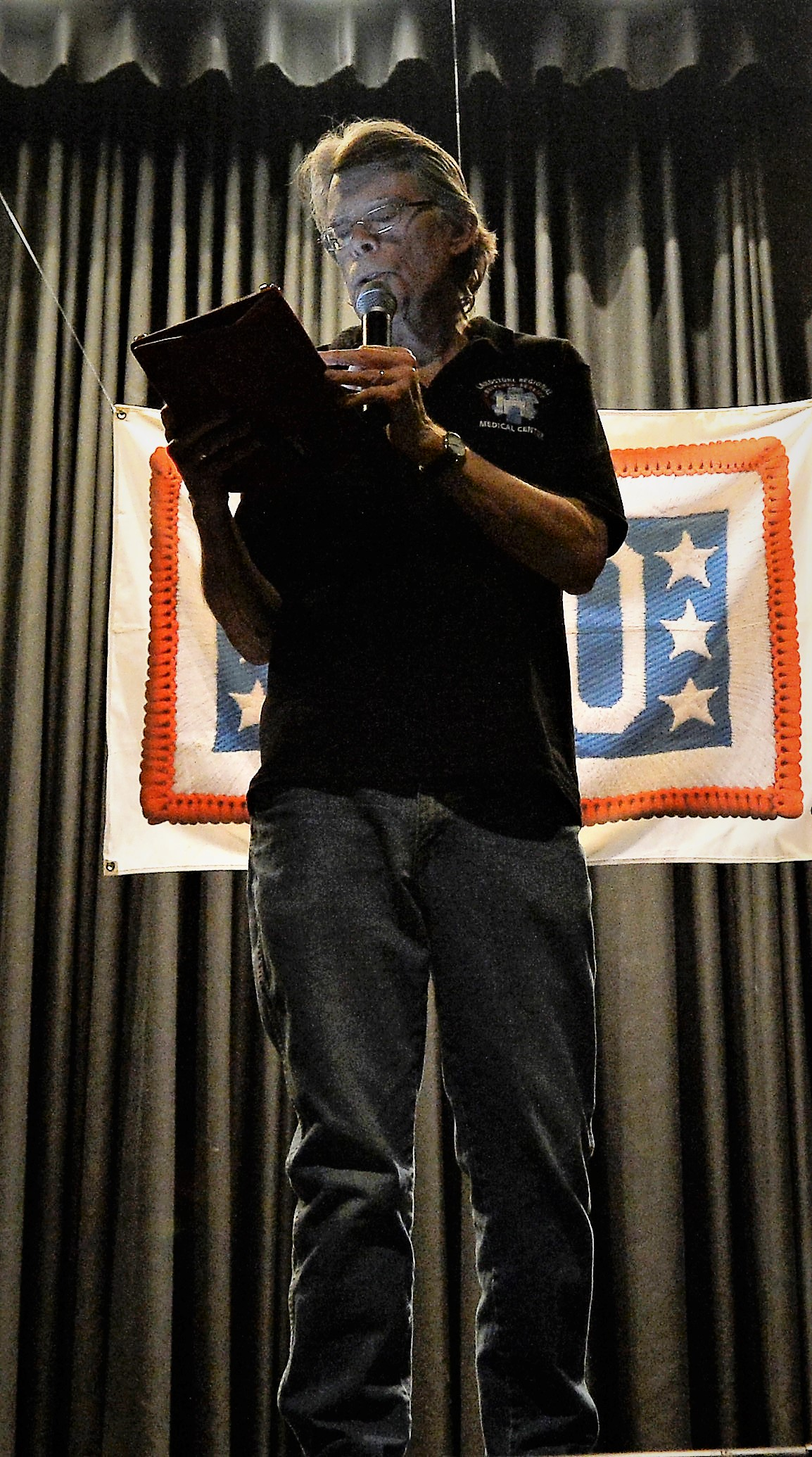 Author Stephen King reads from his recently released book “Doctor Sleep”, a sequel to his 1977 horror novel “The Shining”, Nov. 18, 2013, Ramstein Air Base, Germany. King led a multi-stop USO tour around the Kaiserslautern Military Community area, which included visits to the U.S. Army Garrison substance abuse program, Landstuhl Regional Medical Center, USO Warrior Center and concluded with a public reading and open forum. (U.S. Air Force photo/Airman 1st Class Jordan Castelan)